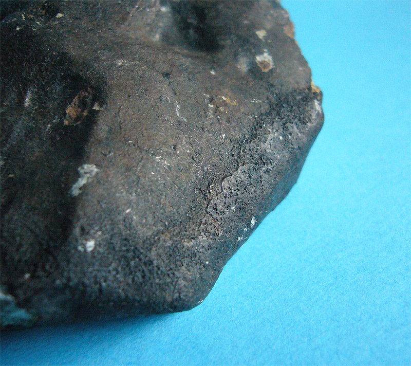 Noktat Addagmar meteorite, Mauritania, LL5.